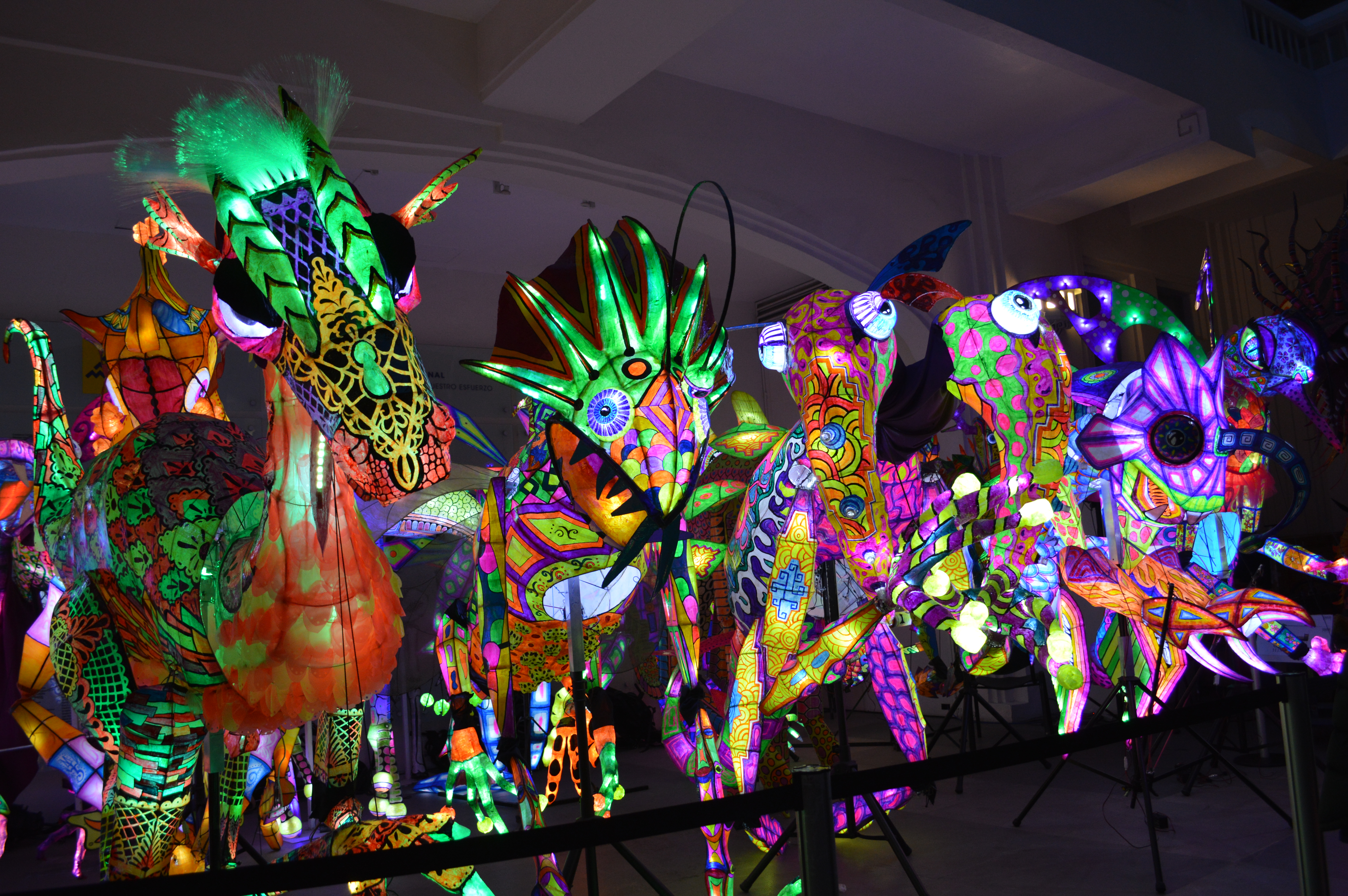 Iluminated alebrijes as the backdrop for the 2015 Monumental Alebrije Award ceremony at the Museo de Arte Popular in Mexico City